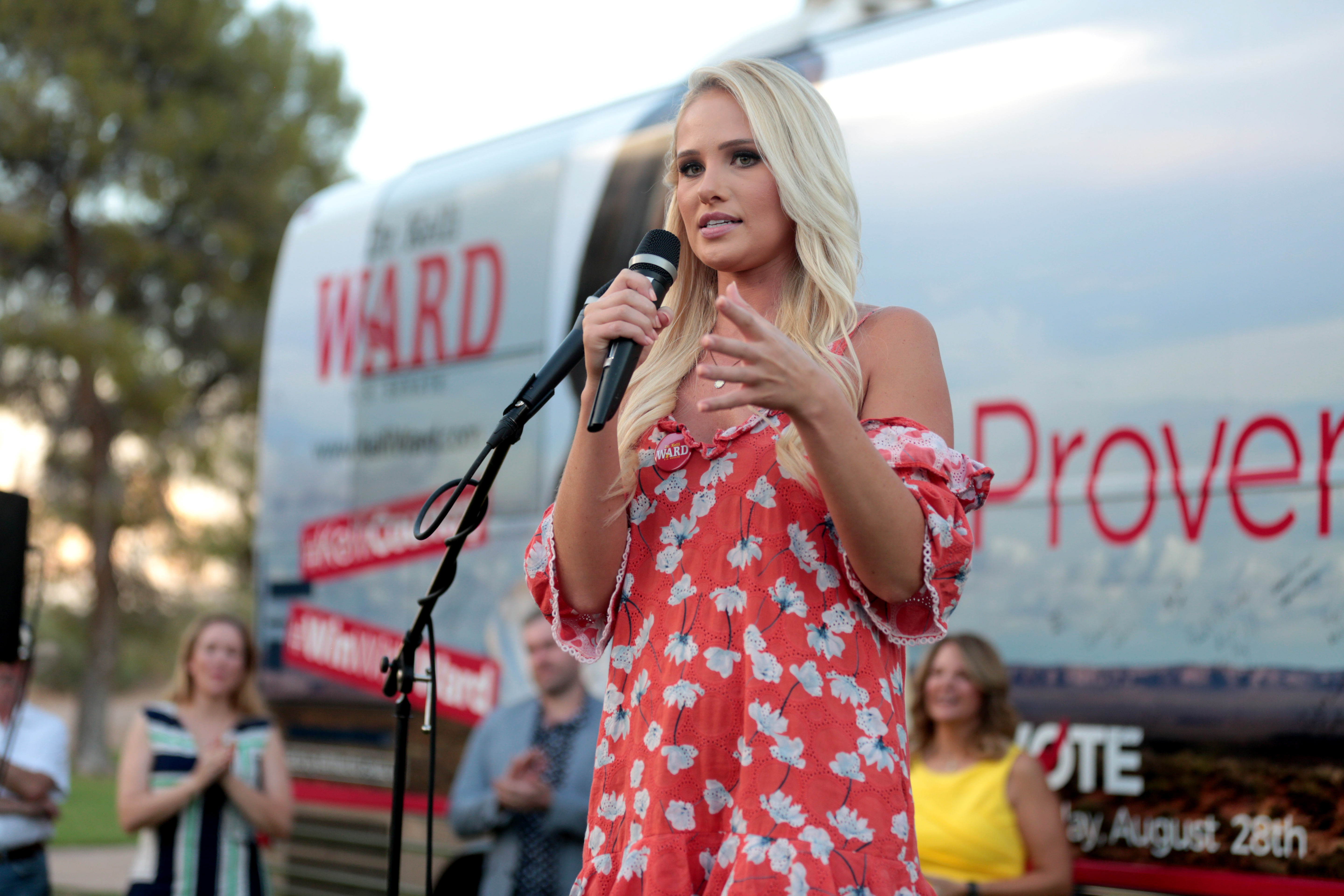 Tomi Lahren speaking with supporters of former State Senator Kelli Ward at a campaign rally at the Pioneer Living History Museum in Phoenix, Arizona.